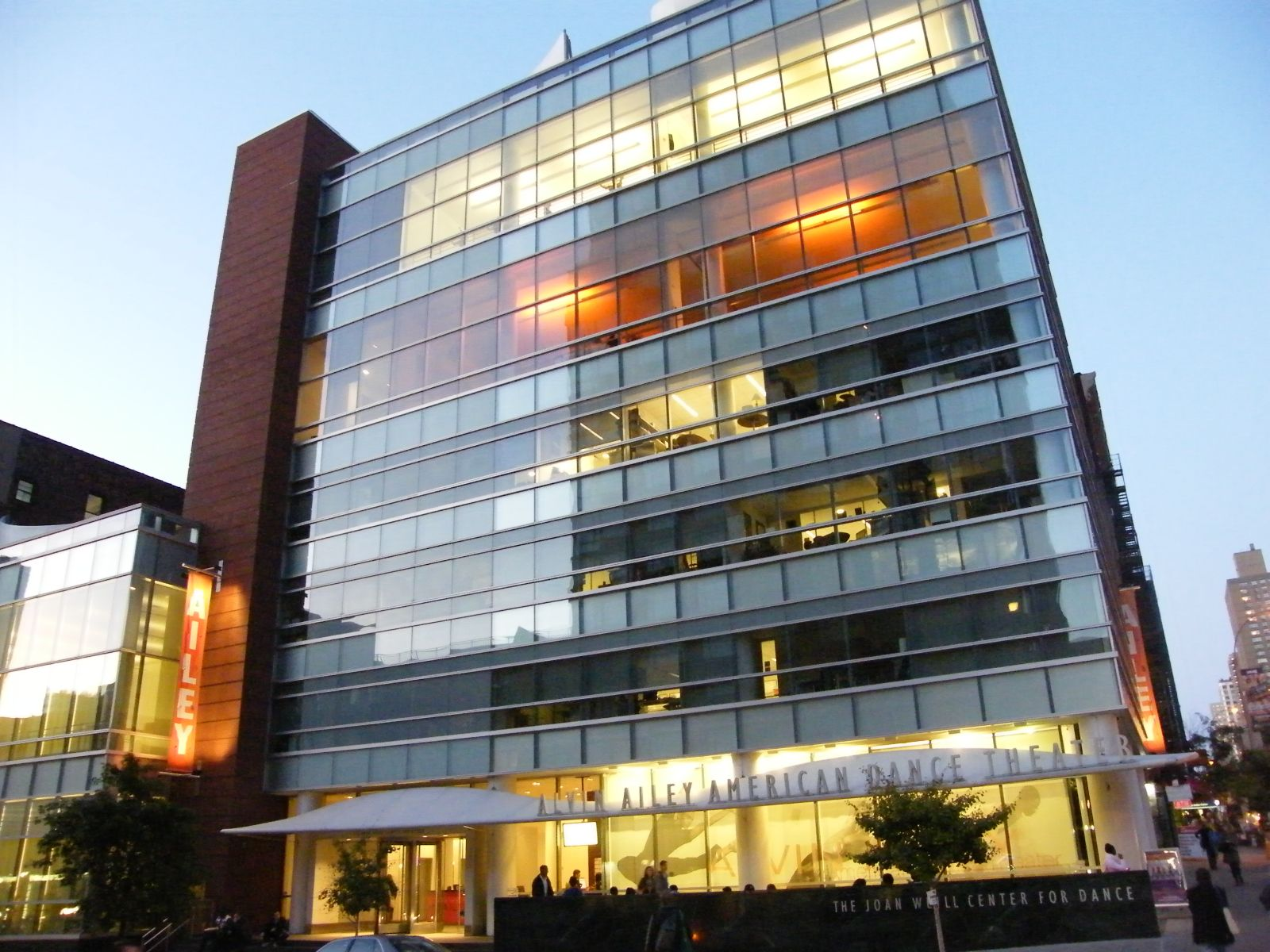 Alvin Ailey American Dance Theater